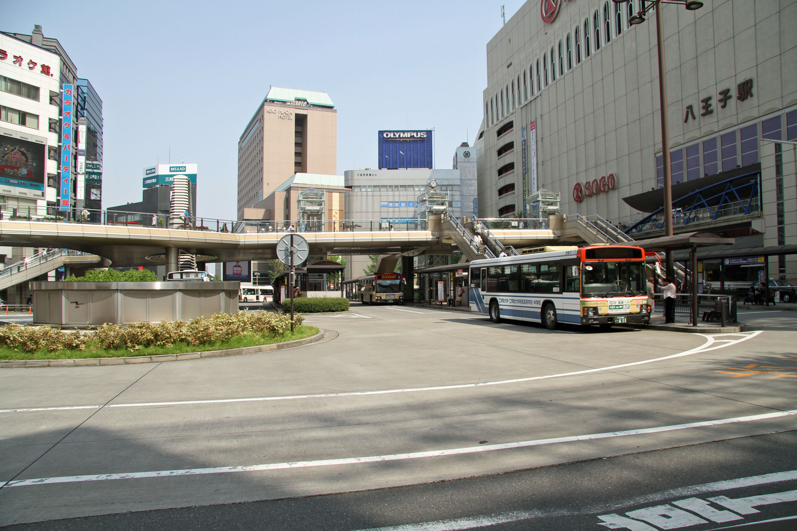 Hachioji Station North Bus Terminal